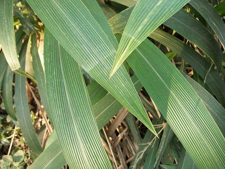 Leaves of Setaria megaphylla at Umdoni Bird Sanctuary, Amanzimtoti, South Africa.